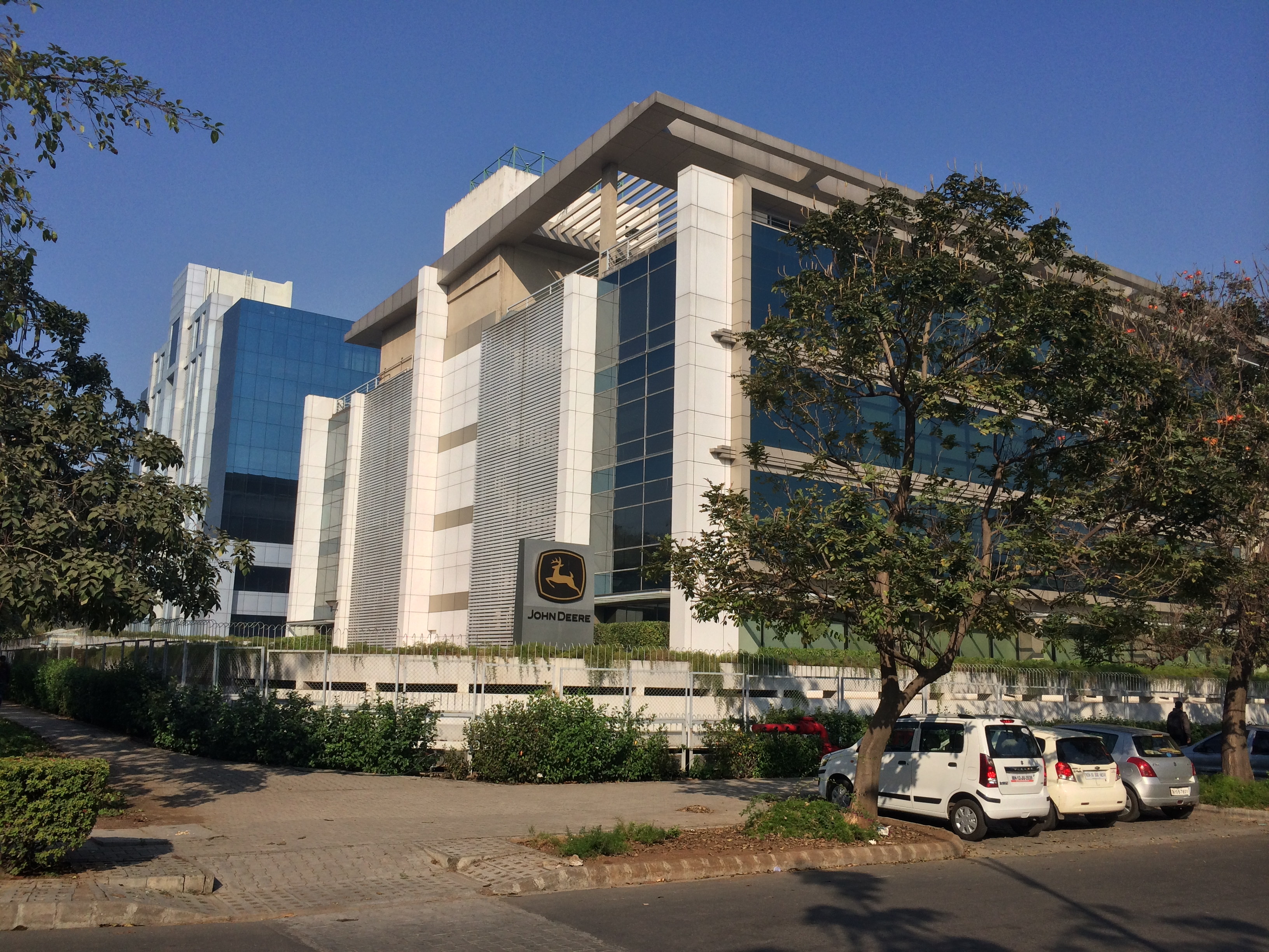 John Deere, Magarpatta City Corporate offices in India India is the world's largest market for tractors by numbers sold every year